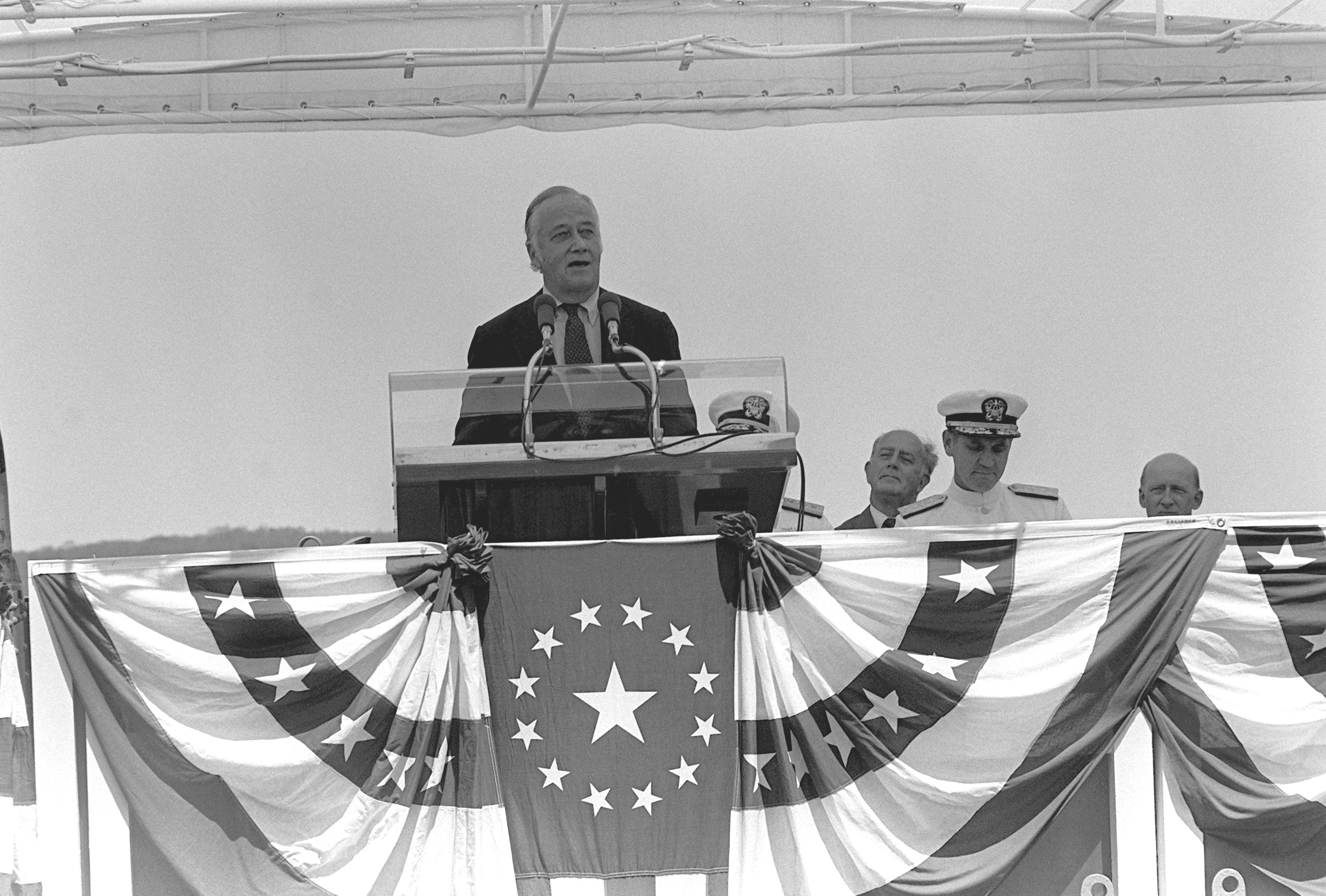 Charles Mathias, Jr., member of the United States Senate from Maryland, speaks at the commissioning ceremony for the nuclear-powered attack submarine USS Baltimore (SSN-704).